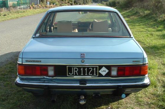 1978–1980 Holden VB Commodore SL/E sedan.